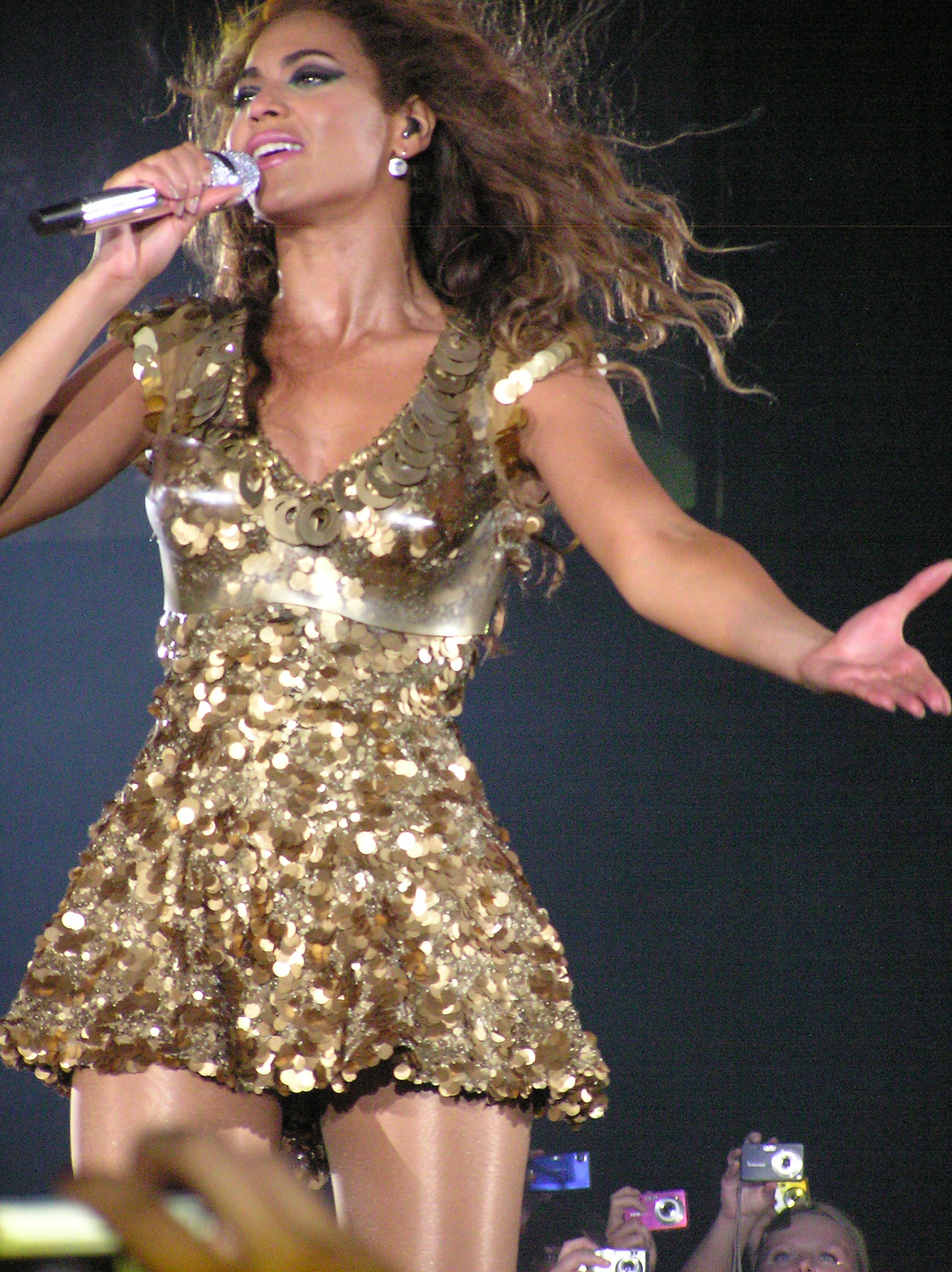 Beyoncé Newcastle 2009